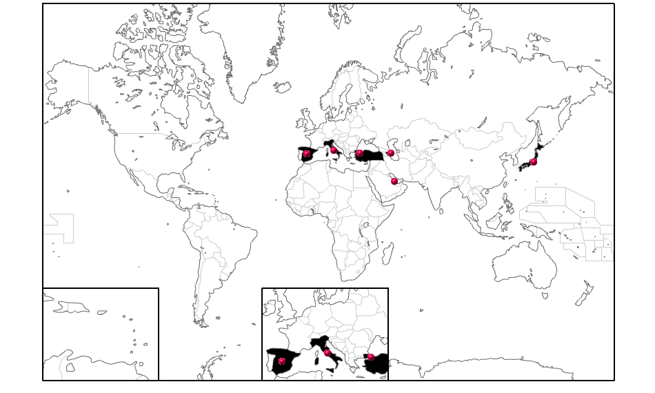 The bidding cities for the 2020 Olympic Games (Baku, Doha, Istanbul, Rome, Madrid and Tokyo) are represented by red dots, and their respective countries (Azerbaijan, Qatar, Turkey, Spain, Italy and Japan) are filled in in black.